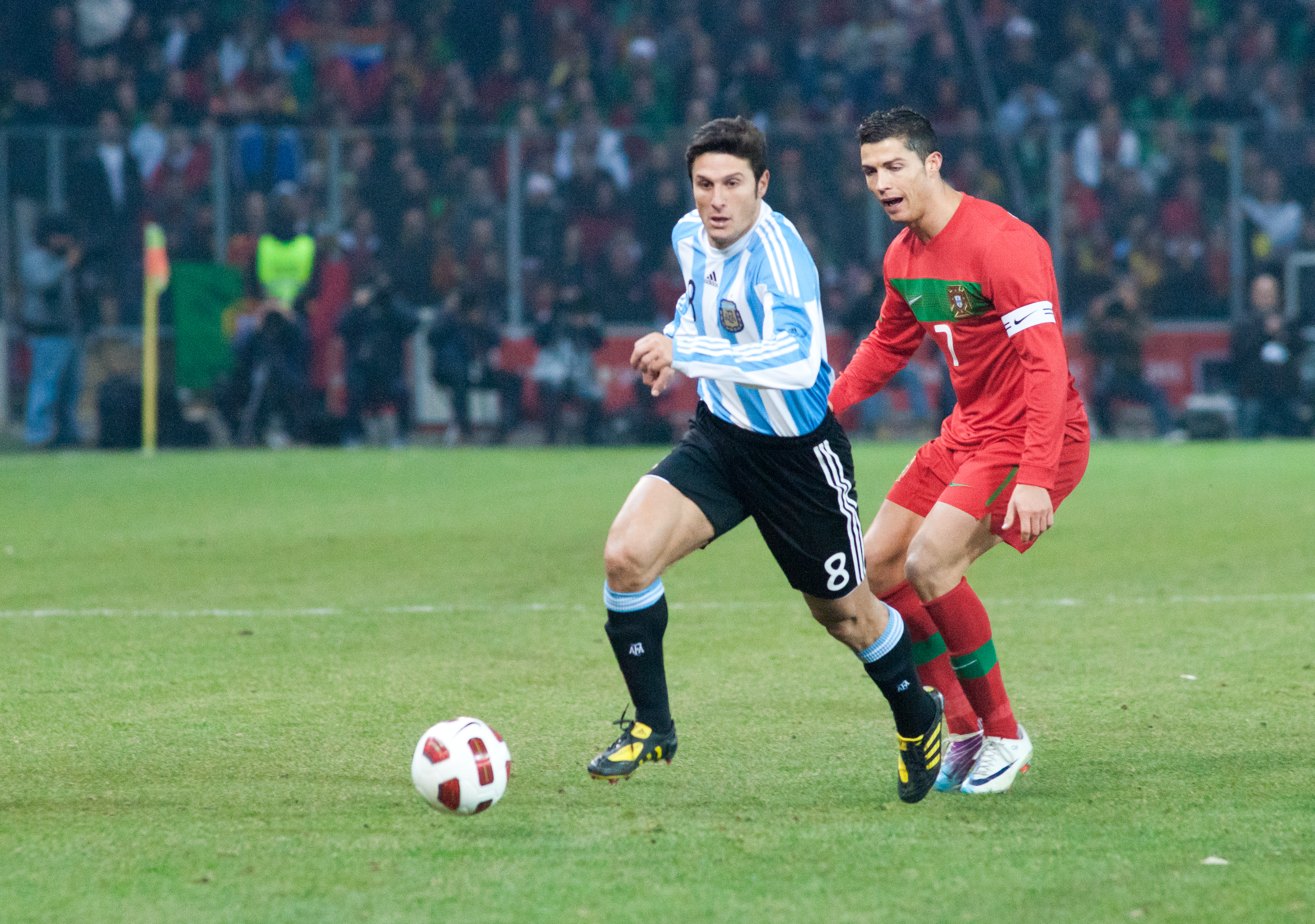 The making of this document was supported by Wikimedia CH. (Submit your project!) For all the files concerned, please see the category Supported by Wikimedia CH. Portugal vs. Argentina, 9th February 2011